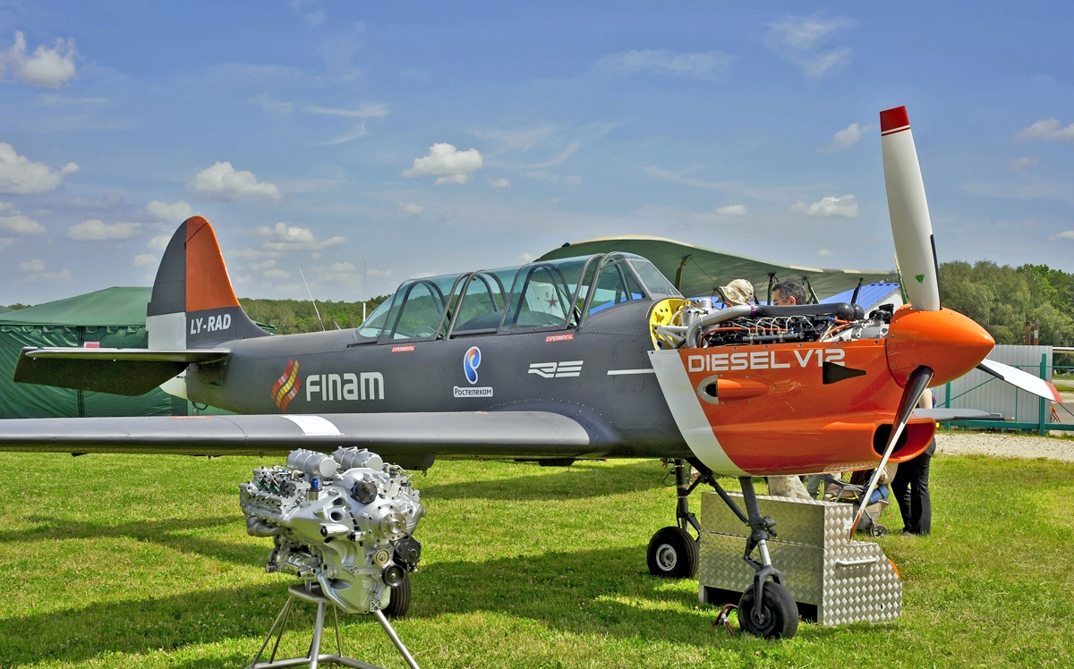 Yak-52 with V12 the diesel RED A03 engine